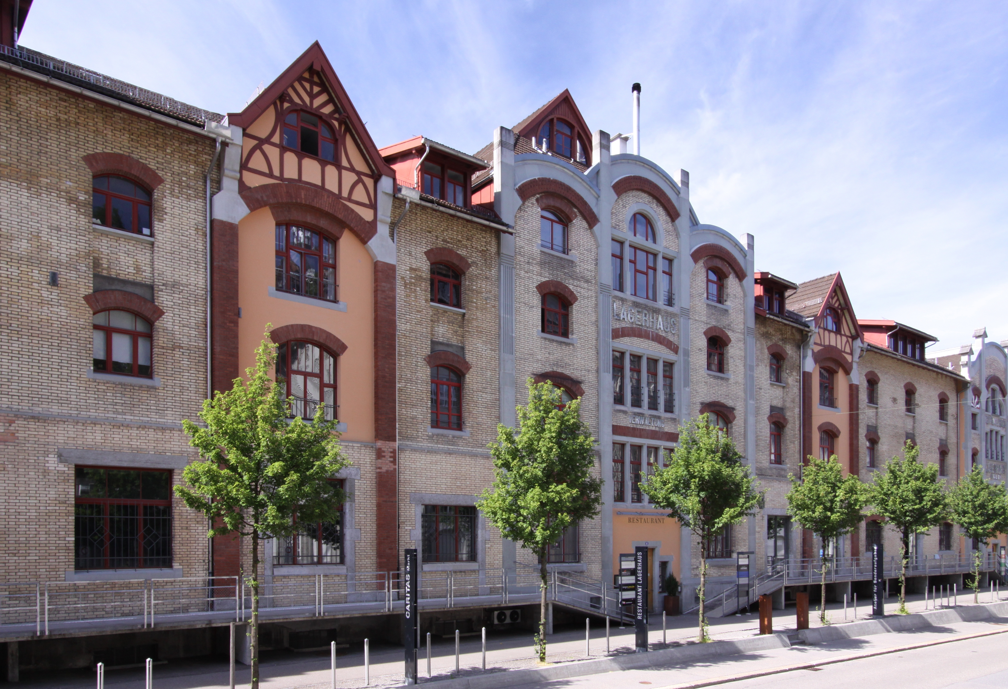 Museum in Lagerhaus, Davidstrasse 44, St. Gallen